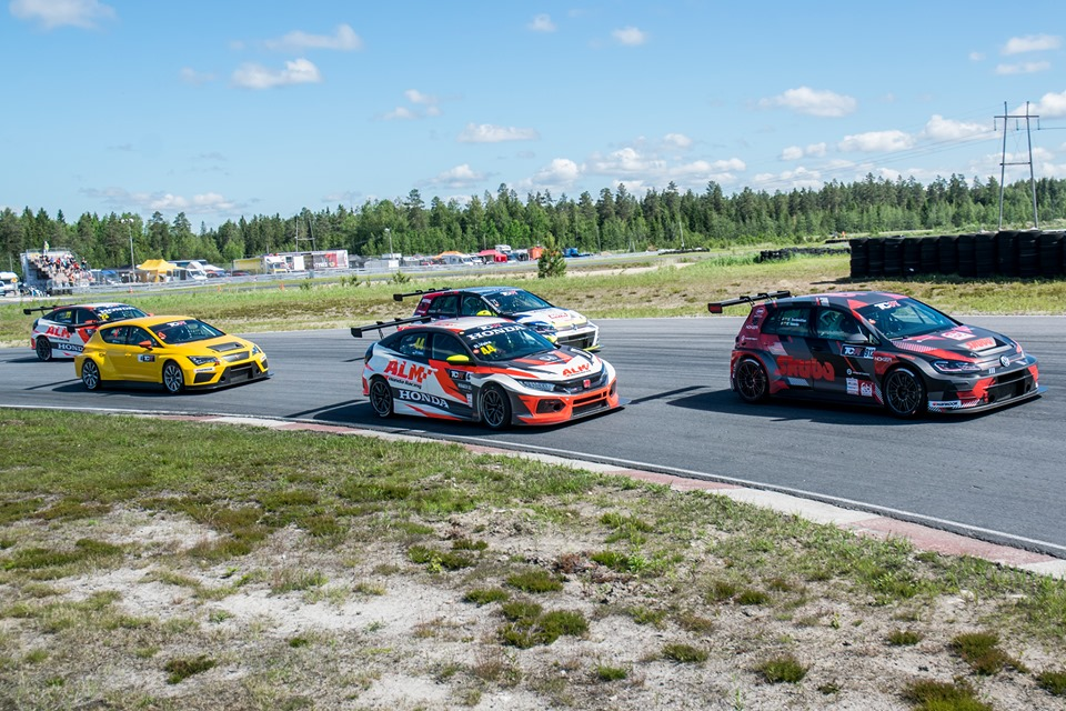 TCR BaTCC in action at Round 2, Botniaring